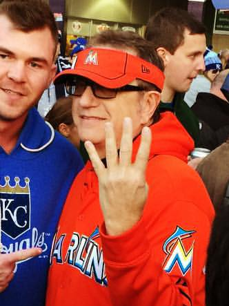 Marlins Man.